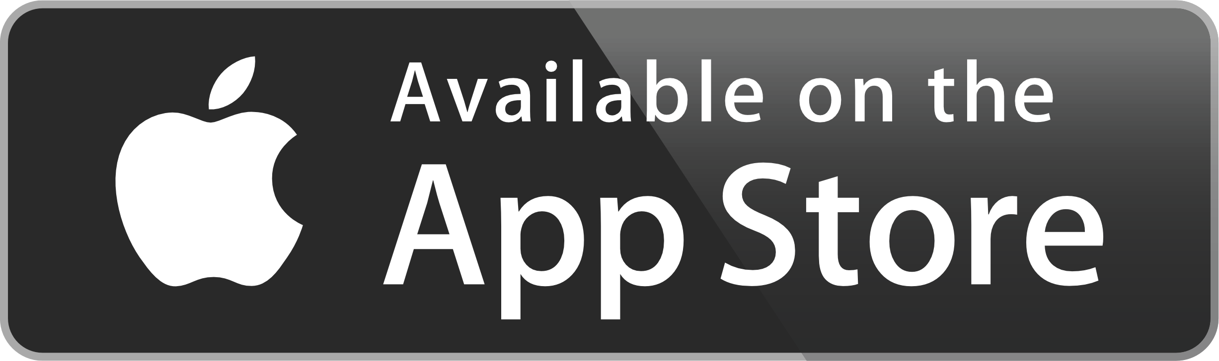 A black version of an emblem used by iOS app developers to indicate that something is available for download from the App Store. It has a image of the Apple Logo and reads "Available on the App Store".